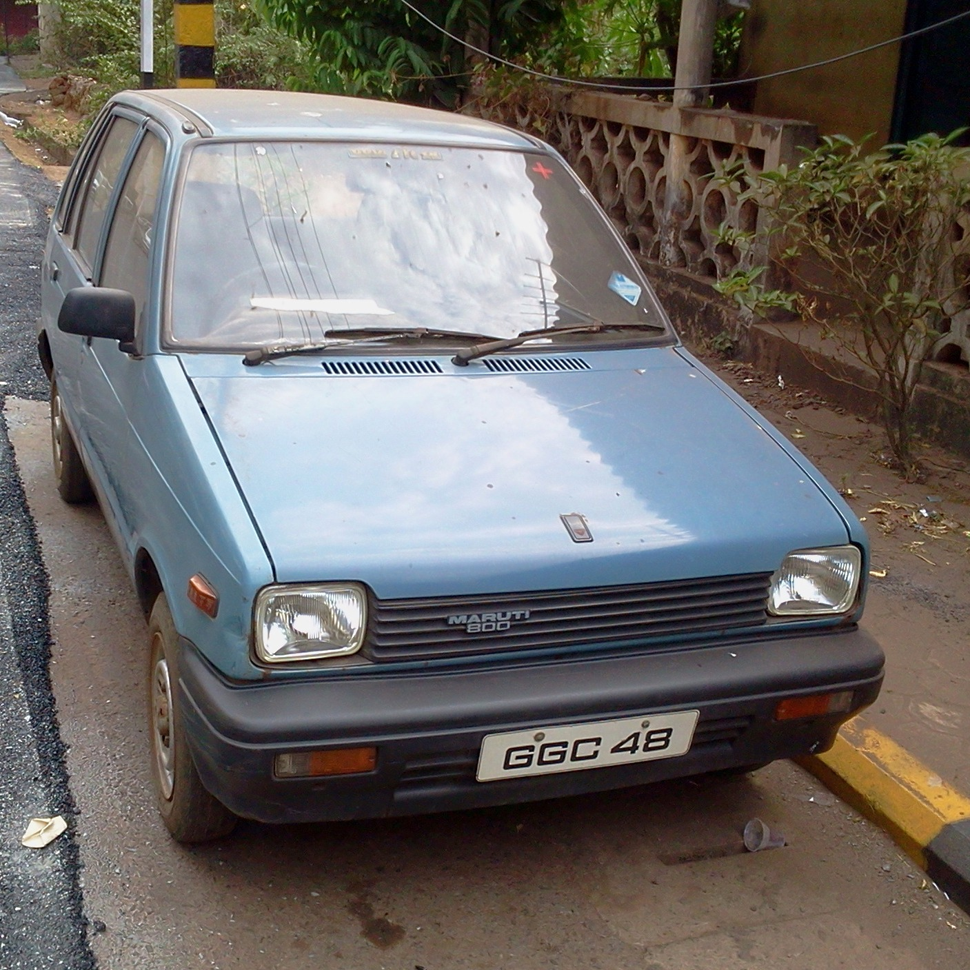 Maruti 800, 1980s model car in Goa, India, in 2013